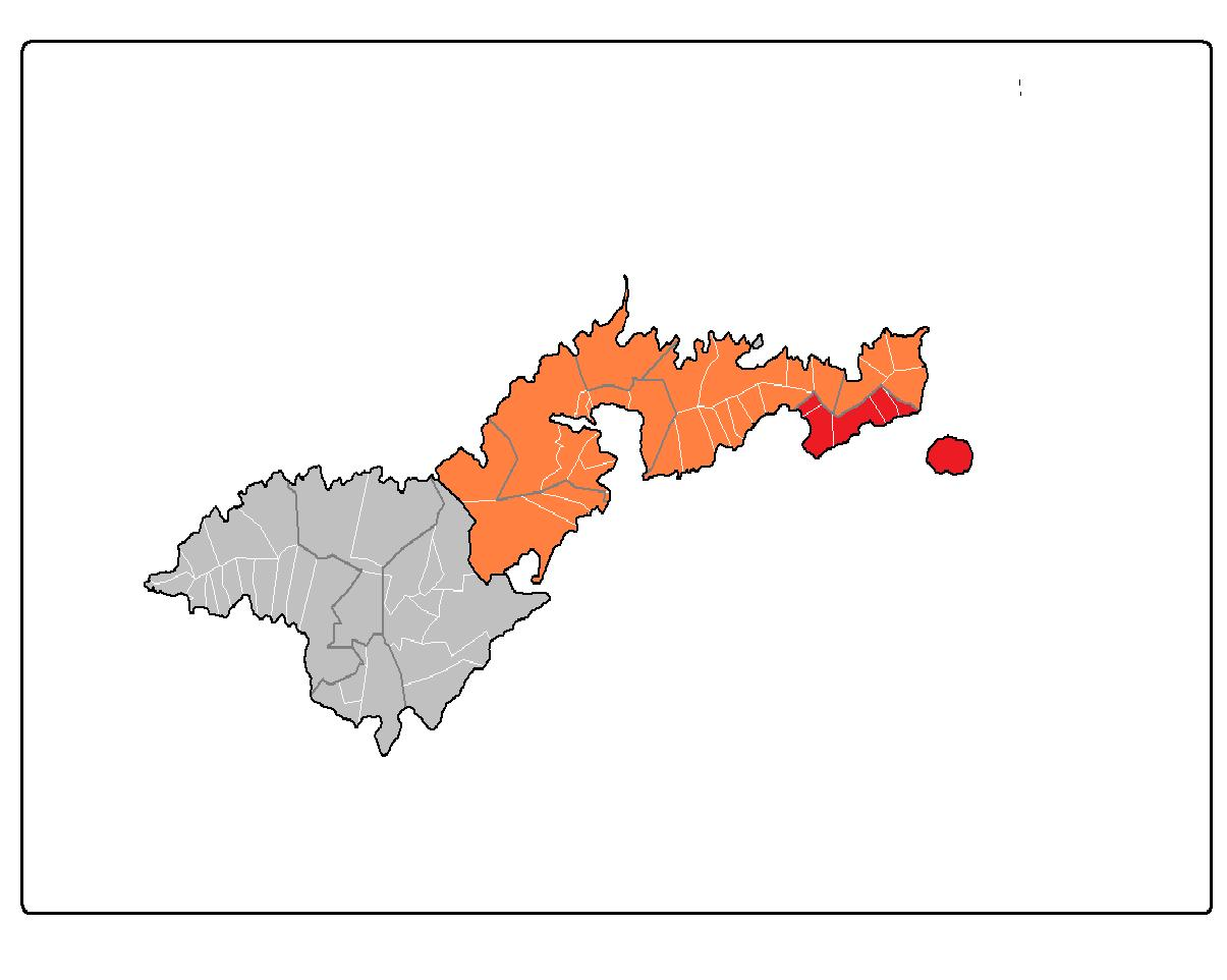 Locator map of American Samoa: Sa'Ole county